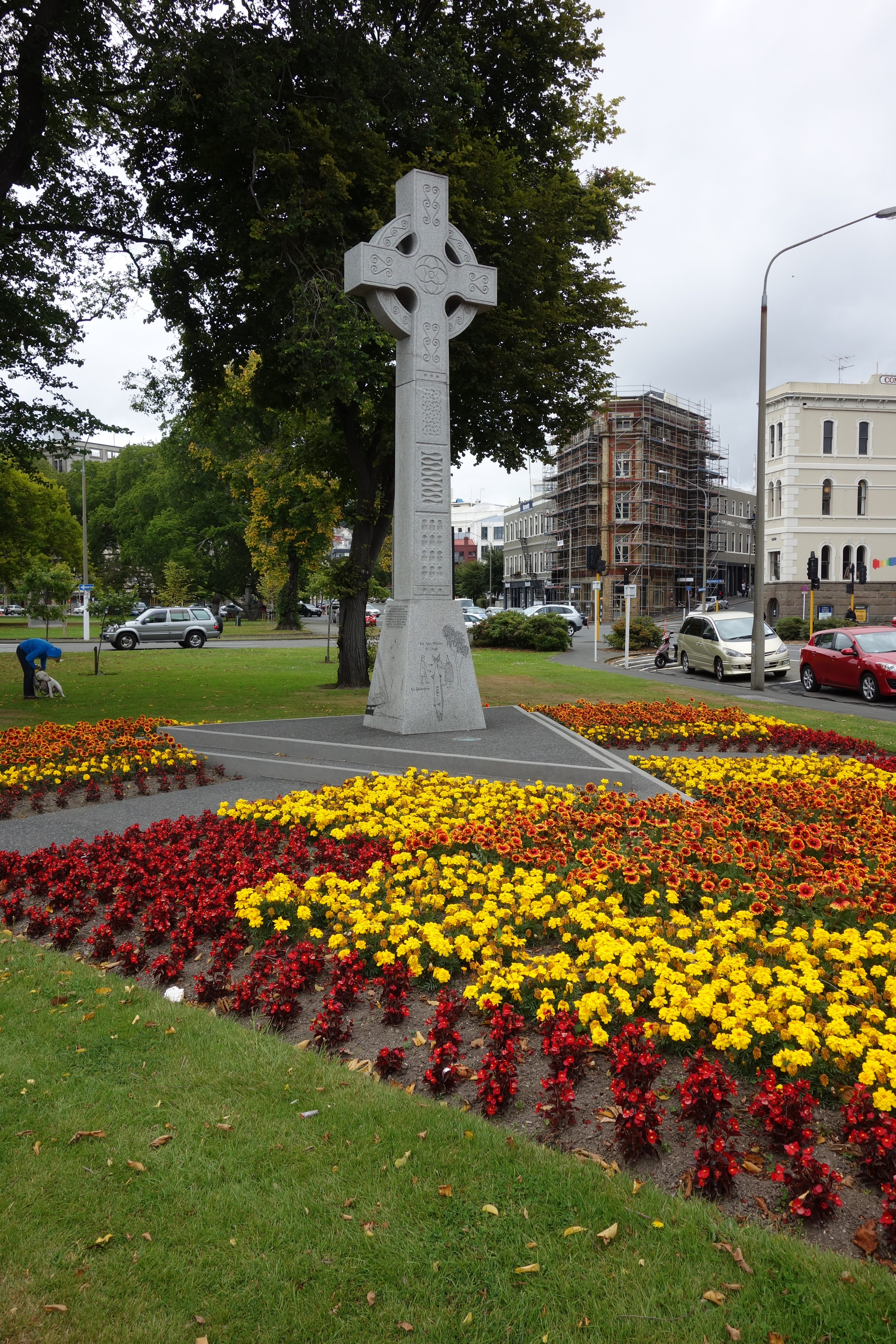 Statue in Queens Gardens, Dunedin